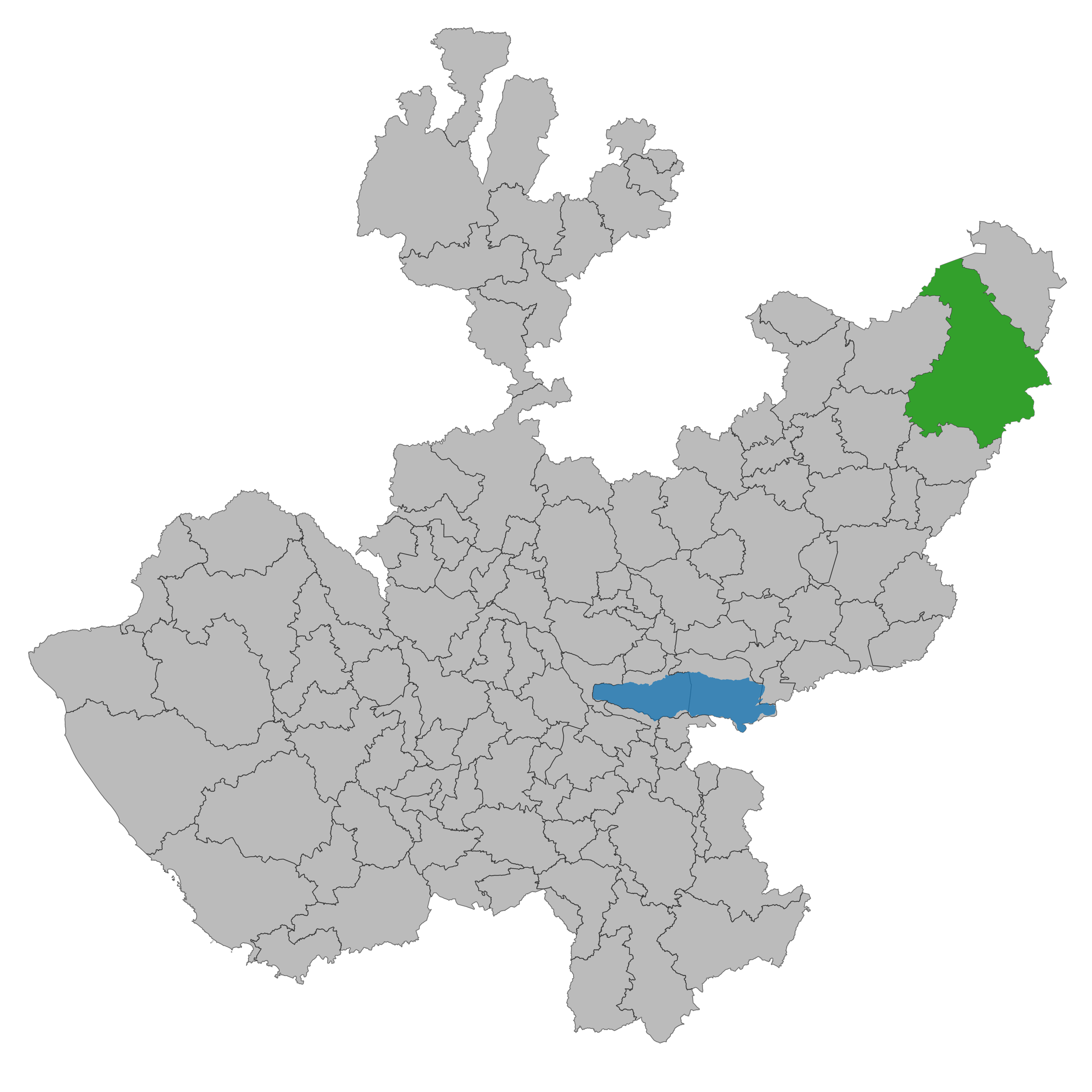 Municipality of Jalisco. Prepared with the software QGIS version 2.8.2 Wien & with information of SCINCE 2010 version 05/2013